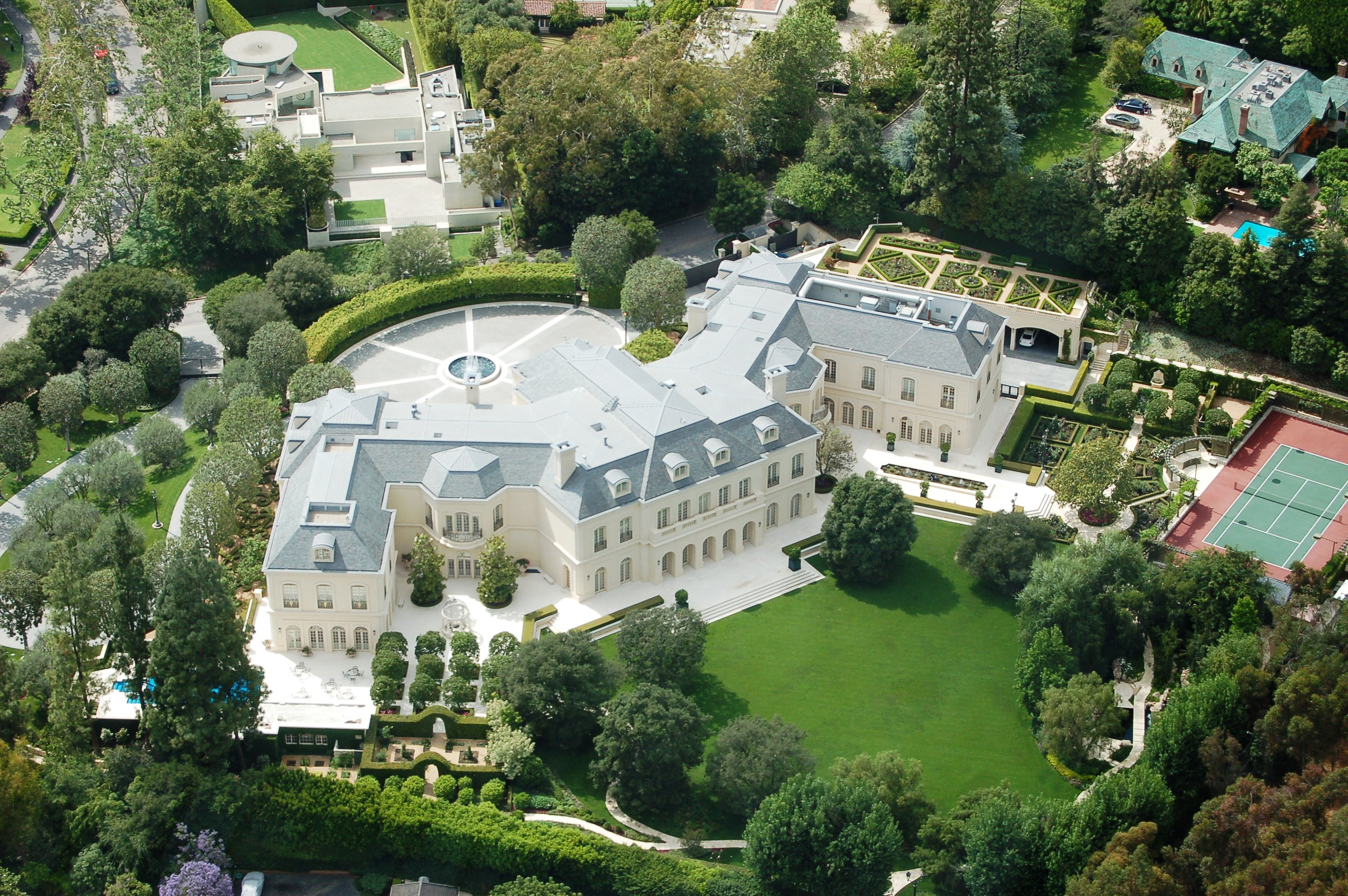 The Manor — Spelling estate, Holmby Hills, Los Angeles. Now that Candy Spelling has announced she's selling her 100-room mansion (2009—$150 million), making it the most expensive residential real-estate listing in the US (sold 2011—$85 million), attention and views for this photo are quickly on the rise. The hockey stick: Photo is from our Los Angeles helicopter tour, part 4: Westwood to Hollywood. I set Creative Commons rights so you can post, print, adapt and share this image of Aaron Spelling's mansion, even the original 3000 x 2000 size, at will. If at all possible, please provide a link back to this page and, if it's not too much trouble, credit to Atwater Village Newbie. Thank you! #1 Google result for the manor holmby hills This photo also seen on LAist And on the Daily Telegraph of Sydney, Australia Story behind this photo on Discarted blog